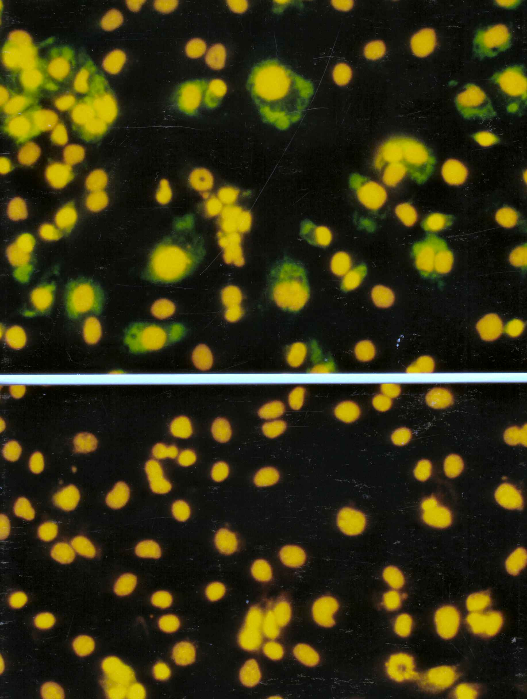 Cells infected with rotavirus (top) and labelled with a monoclonal antibody tagged with Fluorescein Isothiocyanate (FITC) compared with uninfected cells (bottom).